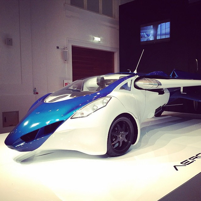 Das #Aeromobil #car #carporn #PioneersFestival #wien #Vienna #pioneers14